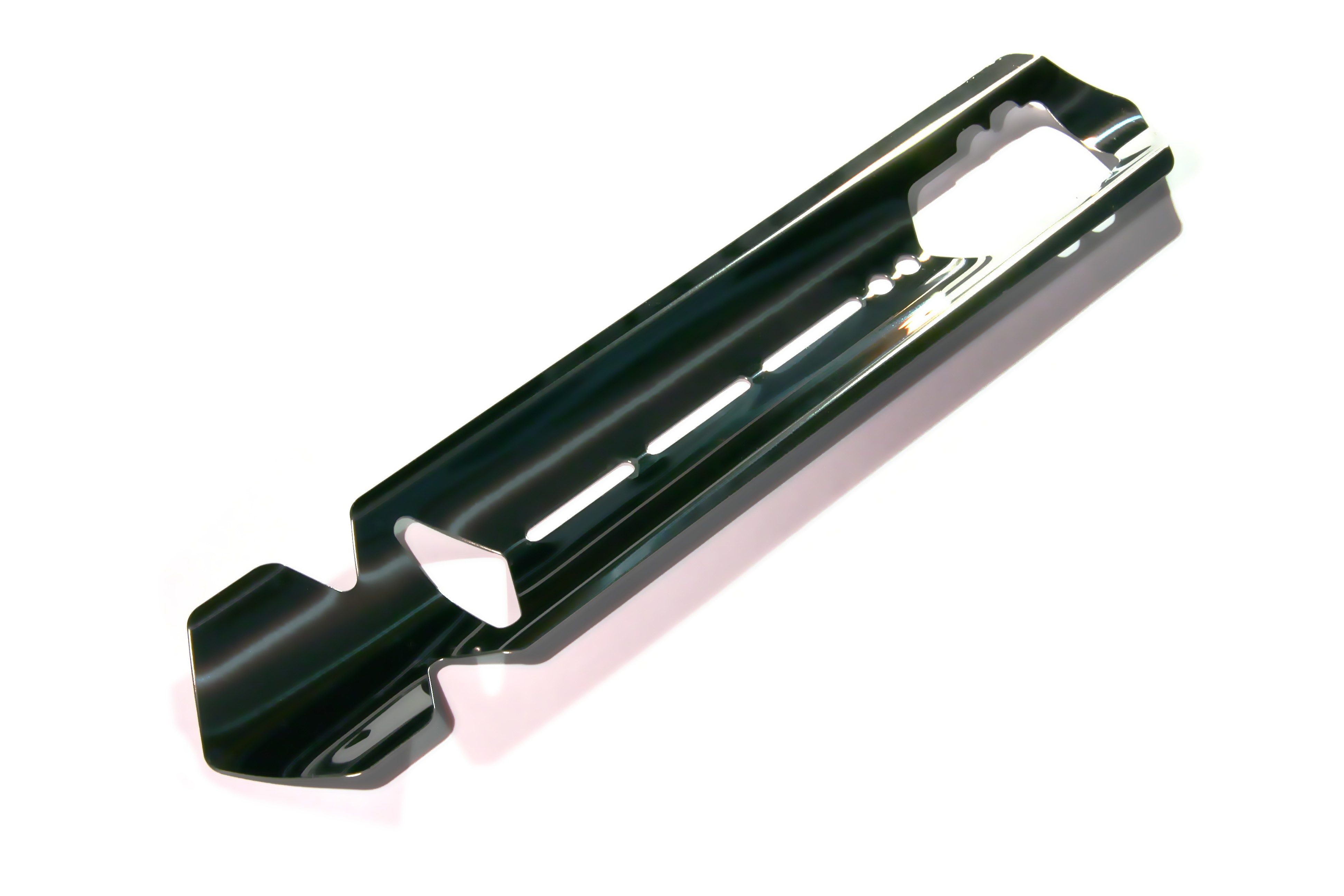 Sugar Tongs, stainless steel